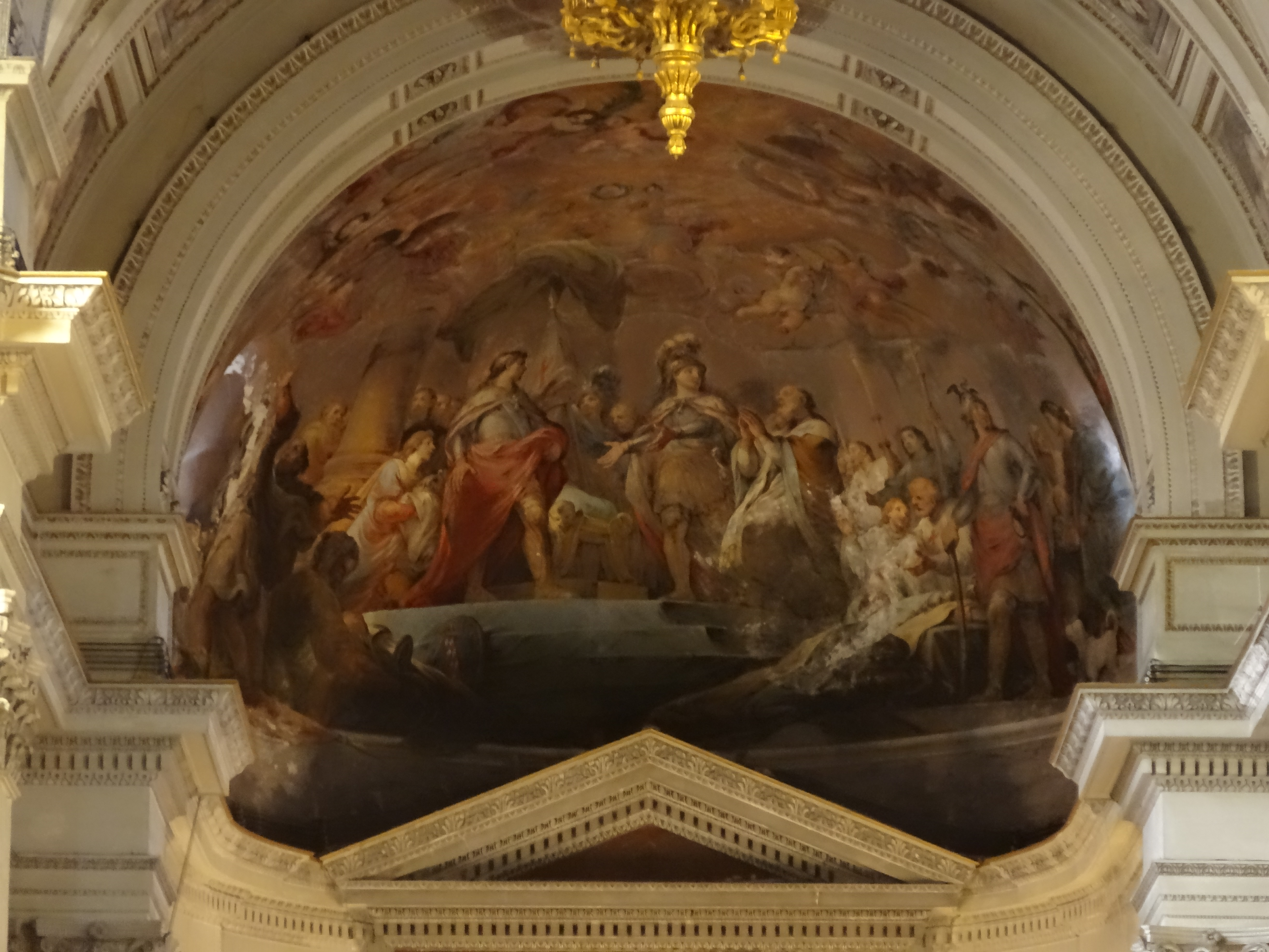 Cathedral of Palermo, Choir. Apse fresco with Robert Guiscard and Roger, Norman Brothers ( 1802 ), by Mariano Rossi.